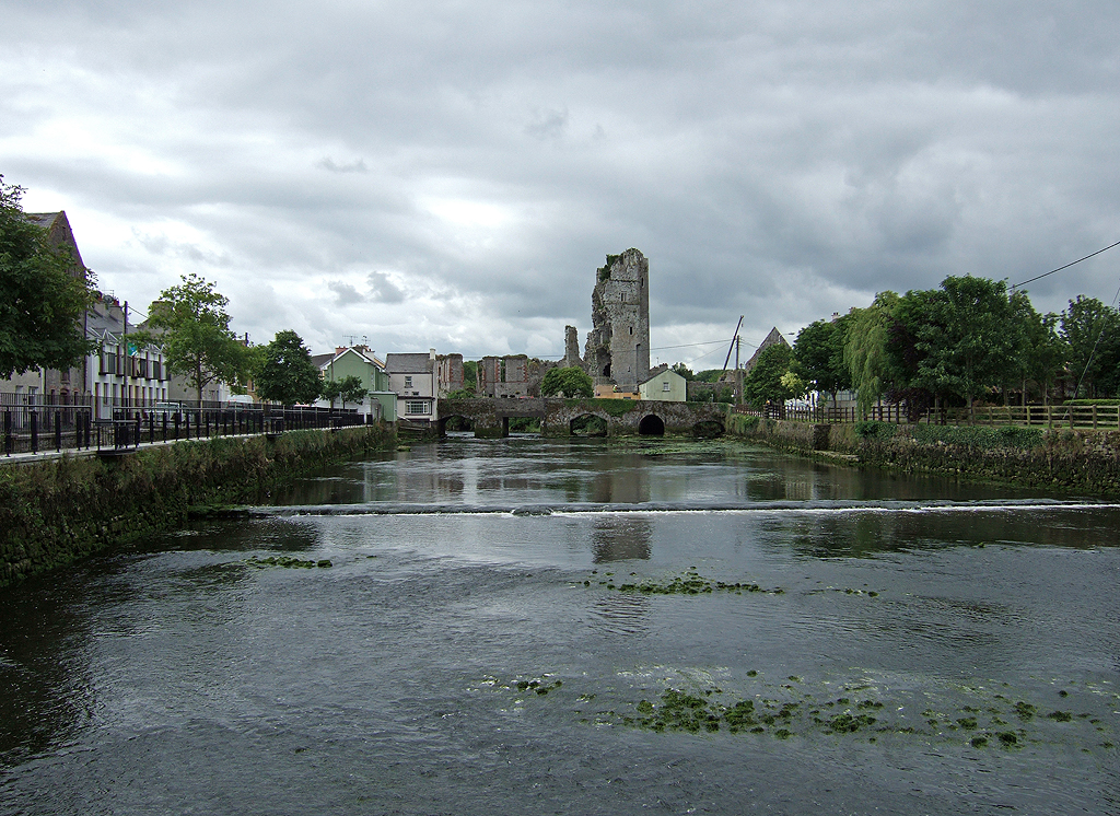 Askeaton Castle and the River Deel